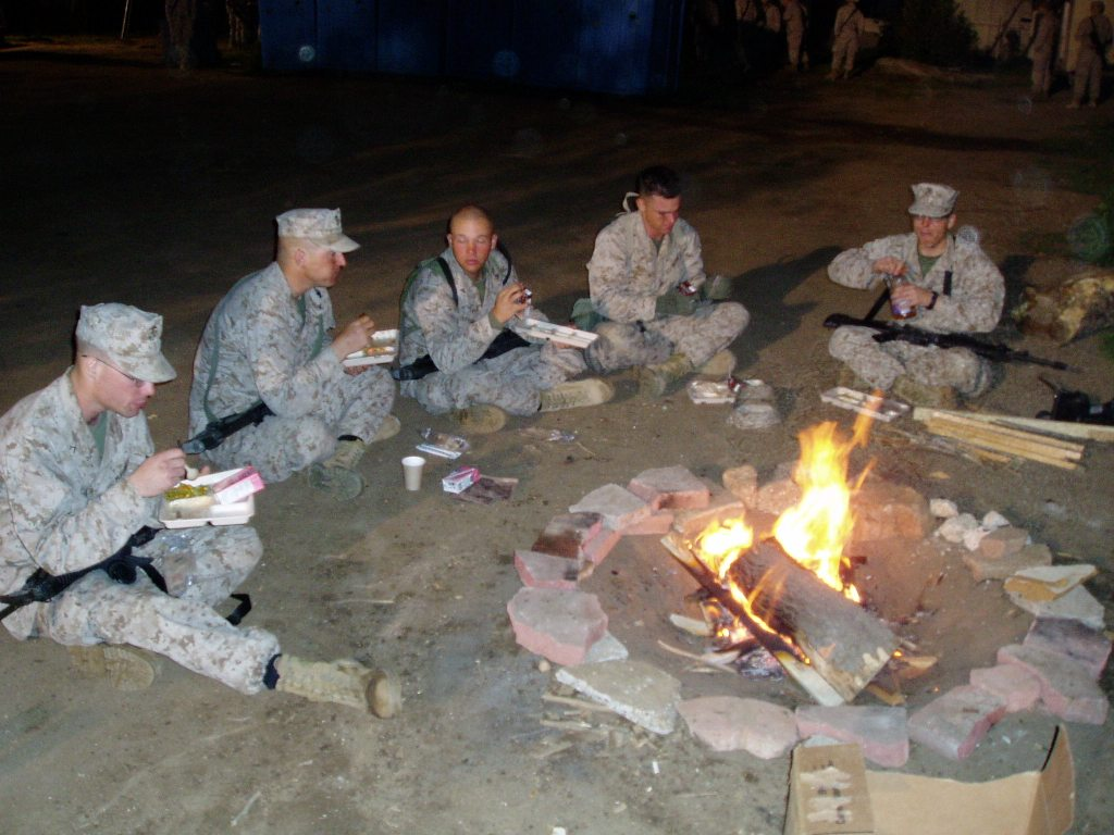 Enjoying a nice hot fire while eating some dinner.Evening Chow